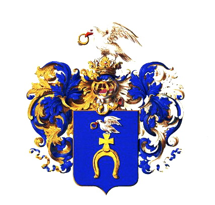 Coat of Arms of Walczycki family